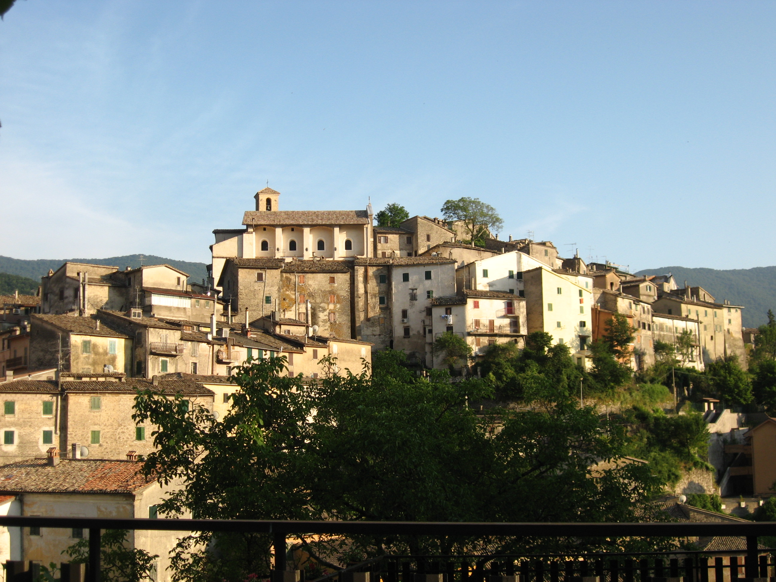 View of Filettino